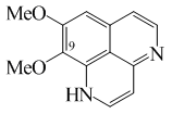 Aaptamine structure